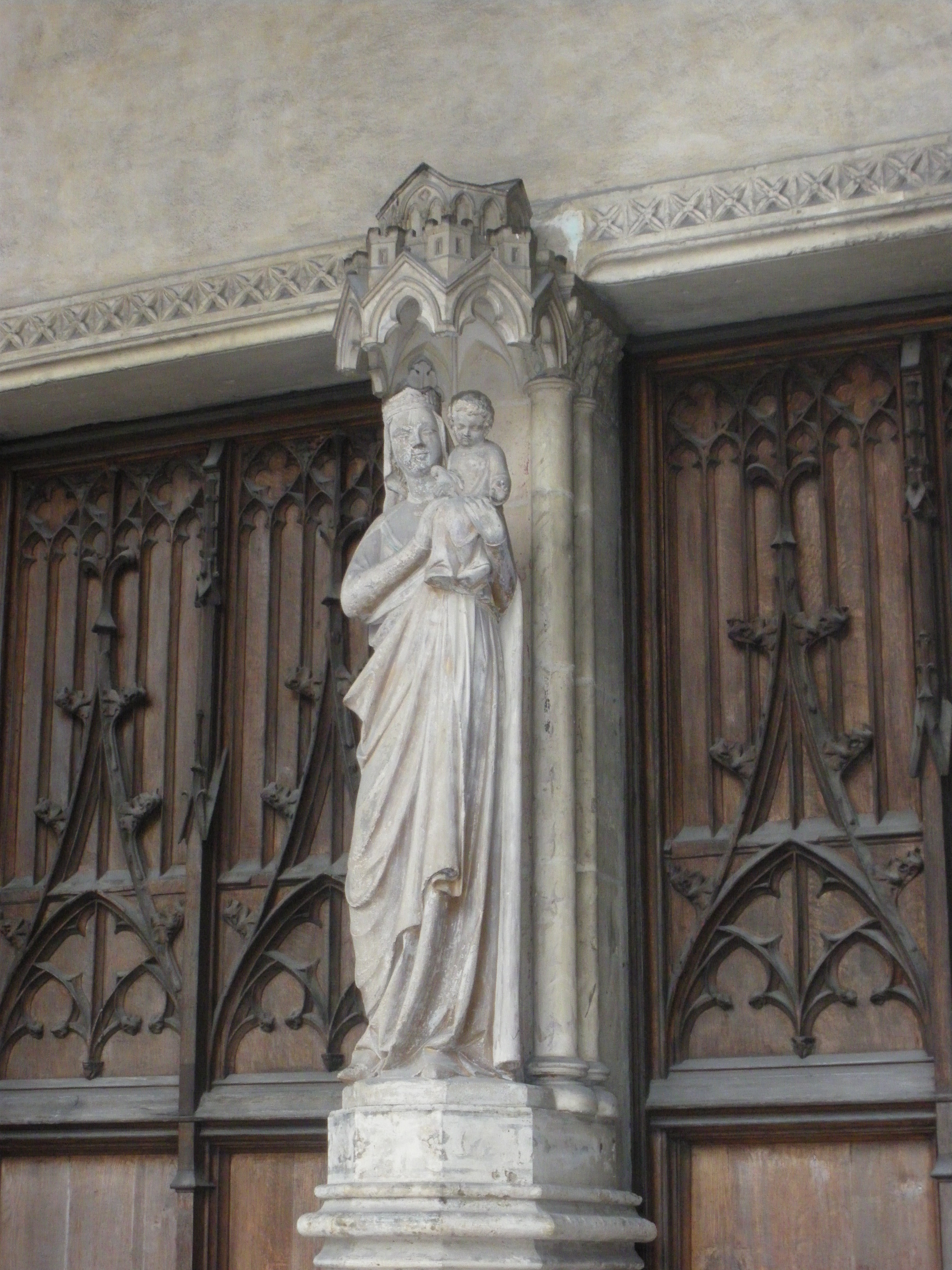 Detail of the main gate, Saint Germain l'Auxerroix, Paris